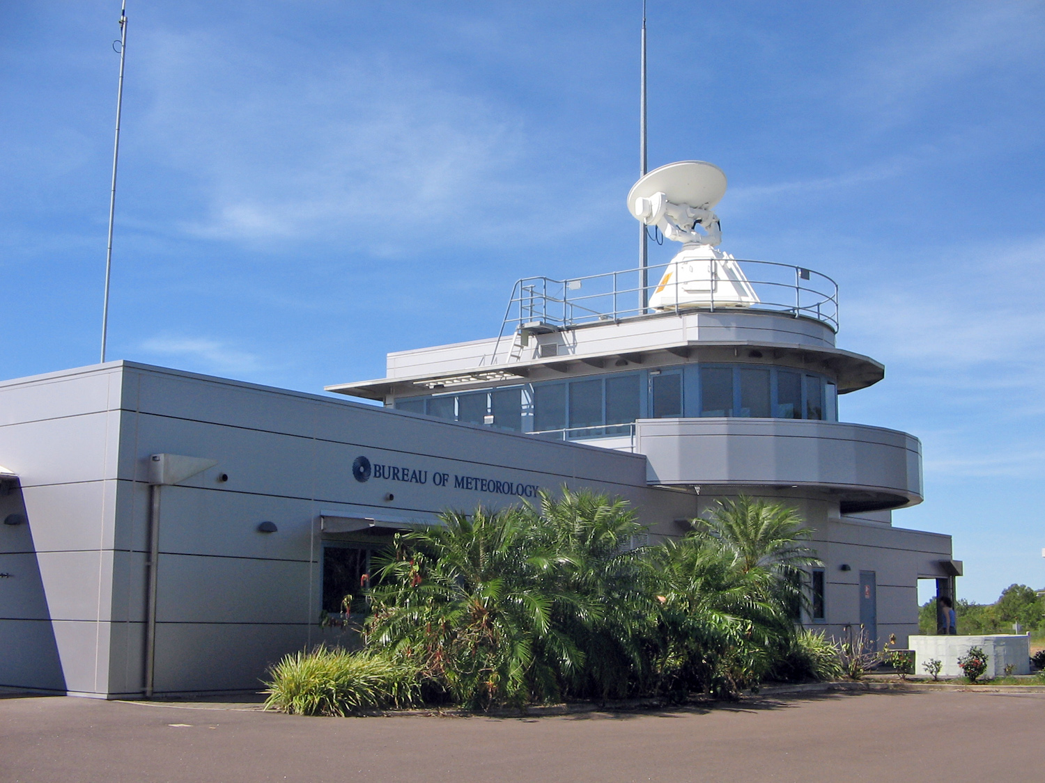 Bureau of Meteorology, Darwin Airport Met Office